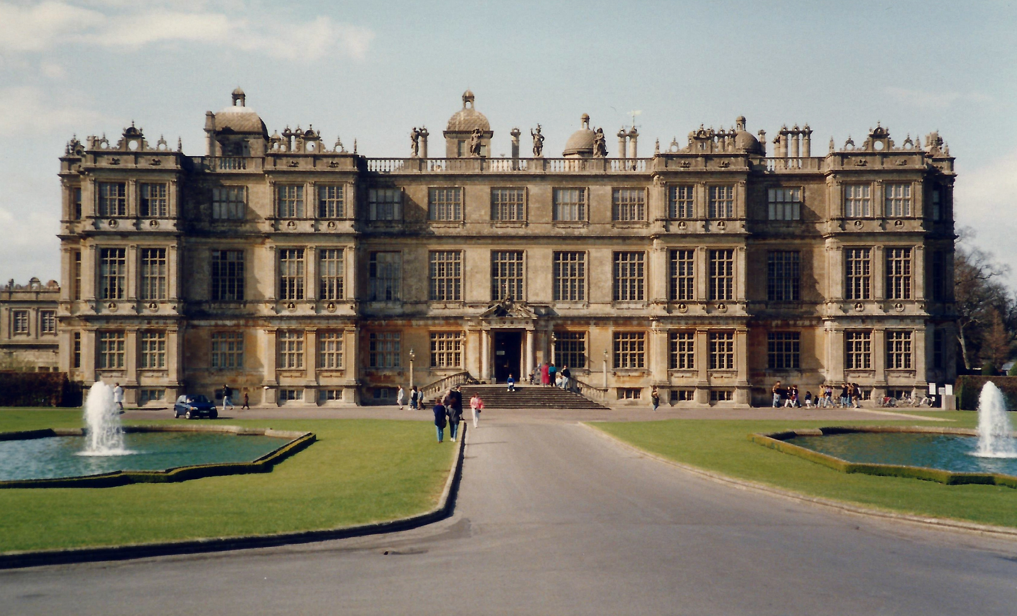 Front (south) elevation; taken c. 1`992, scanned at 600 dpi Jan 2019